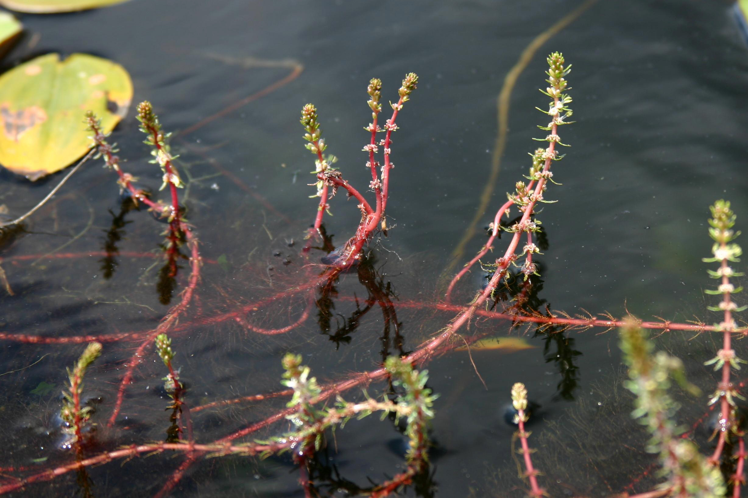 twoleaf watermilfoil - Myriophyllum heterophyllum Michx.